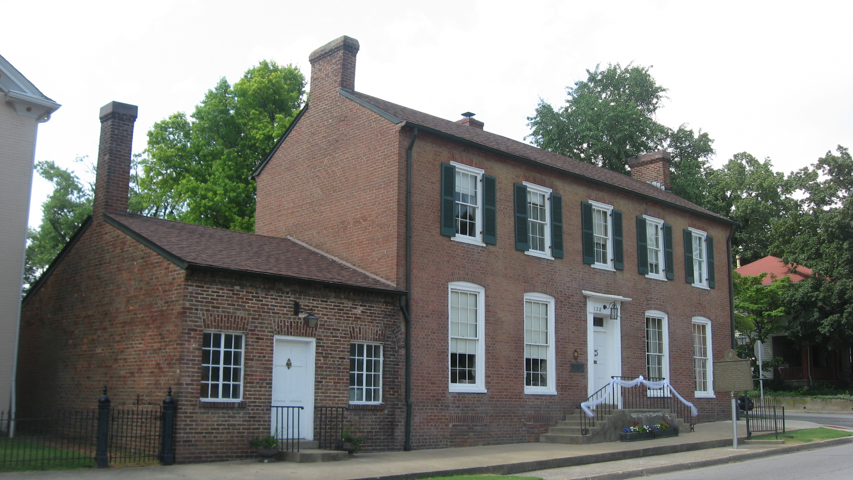 Front and southern end of the Brown Pusey House Community Center, located at 128 N. Main Street in Elizabethtown, Kentucky, United States. Built in 1825 as a house and later converted into a hotel, it is listed on the National Register of Historic Places.